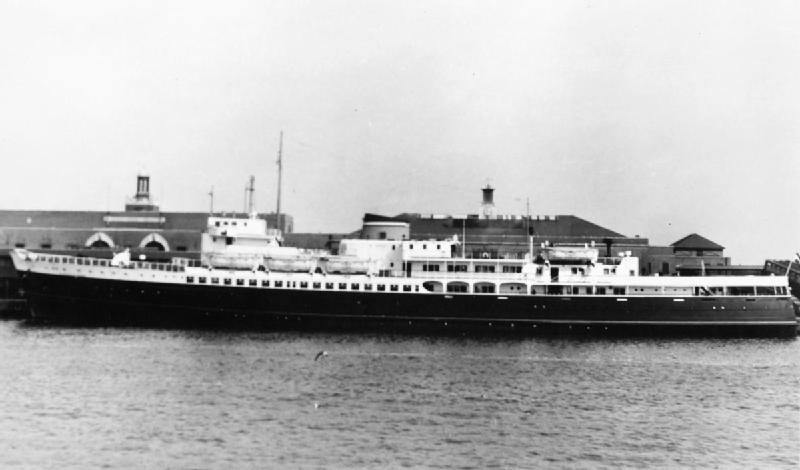 HMS Koningen Emma Docked.